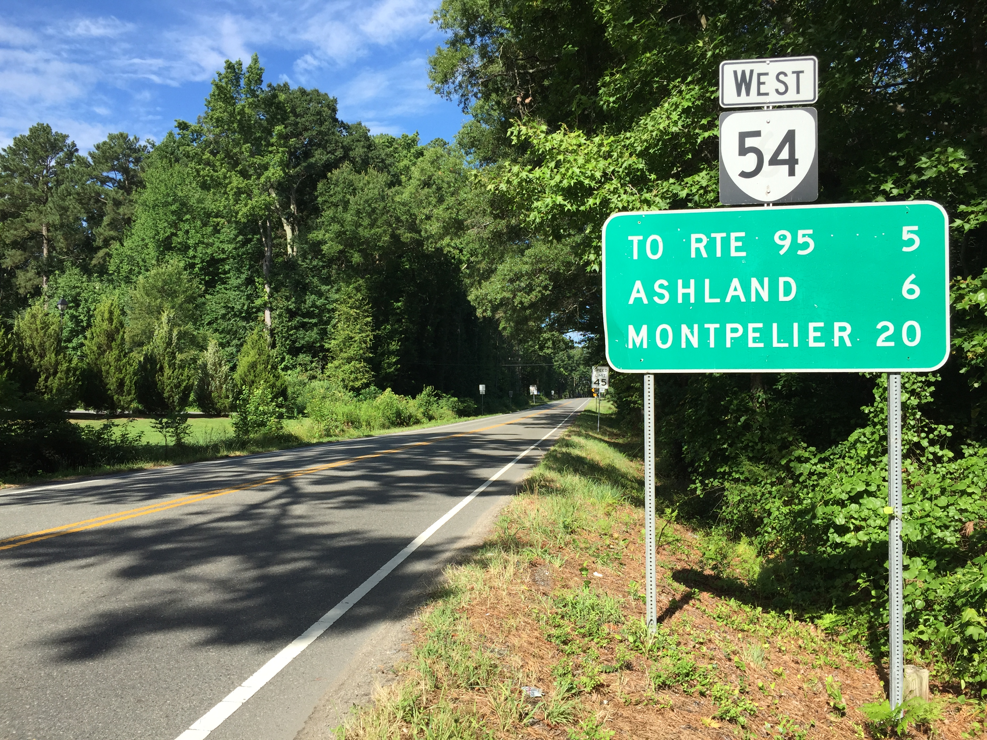 View west along Virginia State Route 54 (Patrick Henry Road) at U.S. Route 301 (Hanover Courthouse Road) in Hanover, Hanover County, Virginia